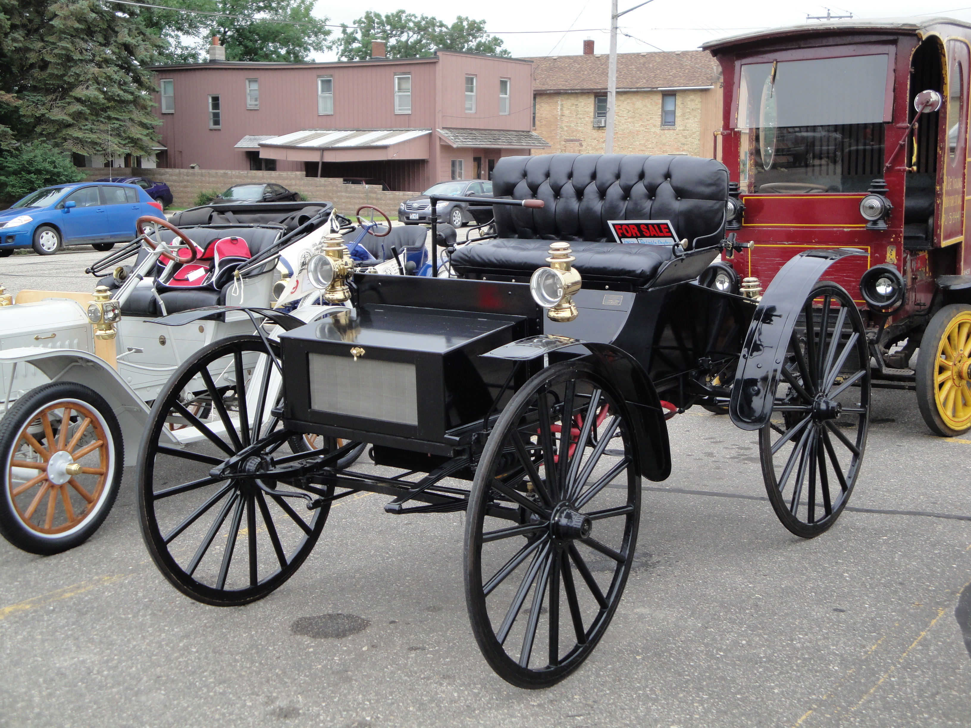 Silver Anniversary New London to New Brighton Antique Car Run August 12, Pre-Tour